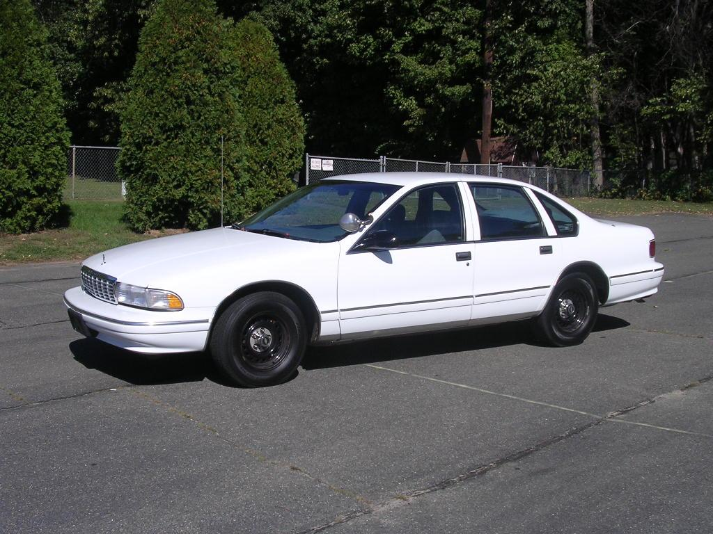 1996 Chevrolet Caprice - 9C1 Police Package.